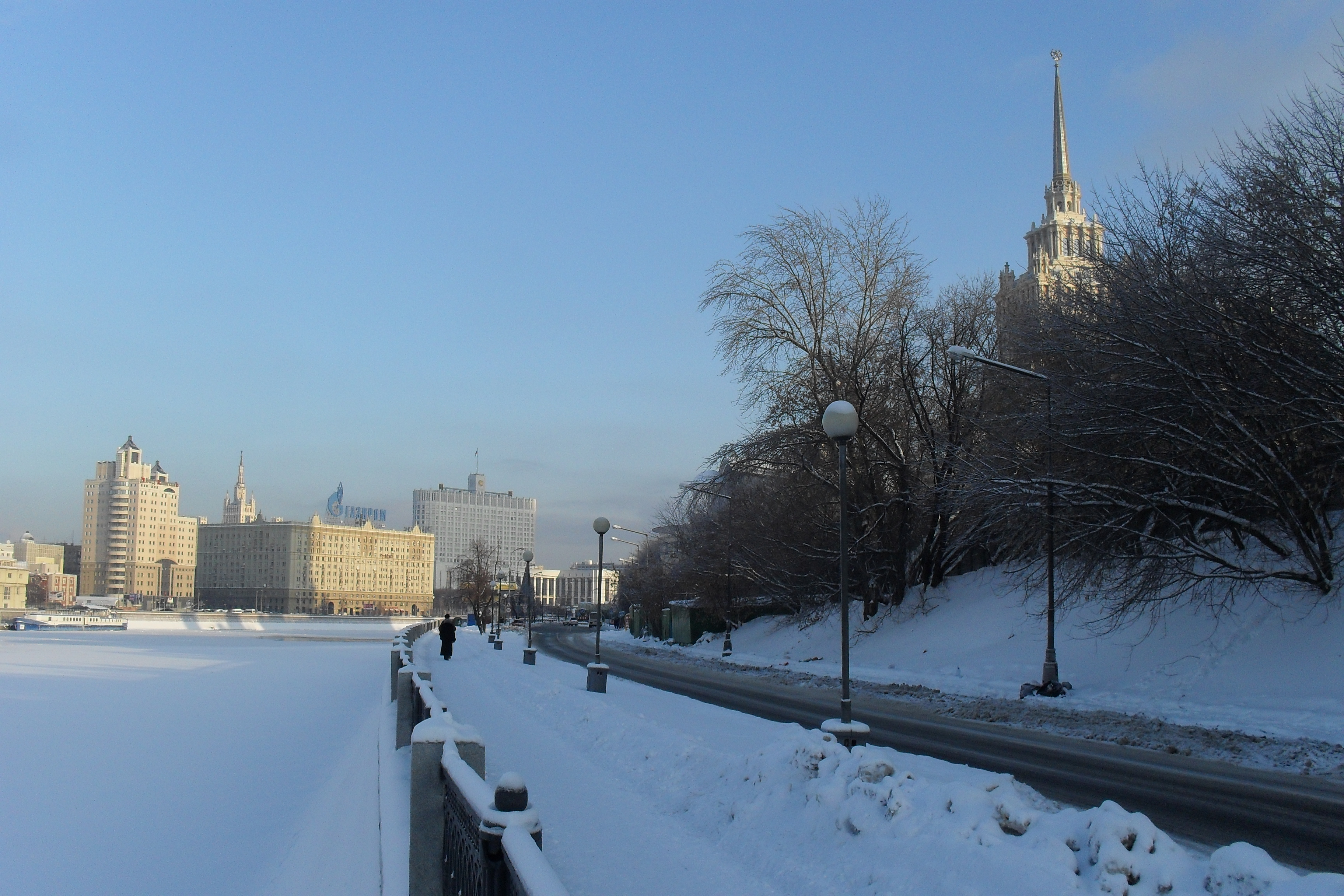 Dorogomilovo District, Moscow, Russia